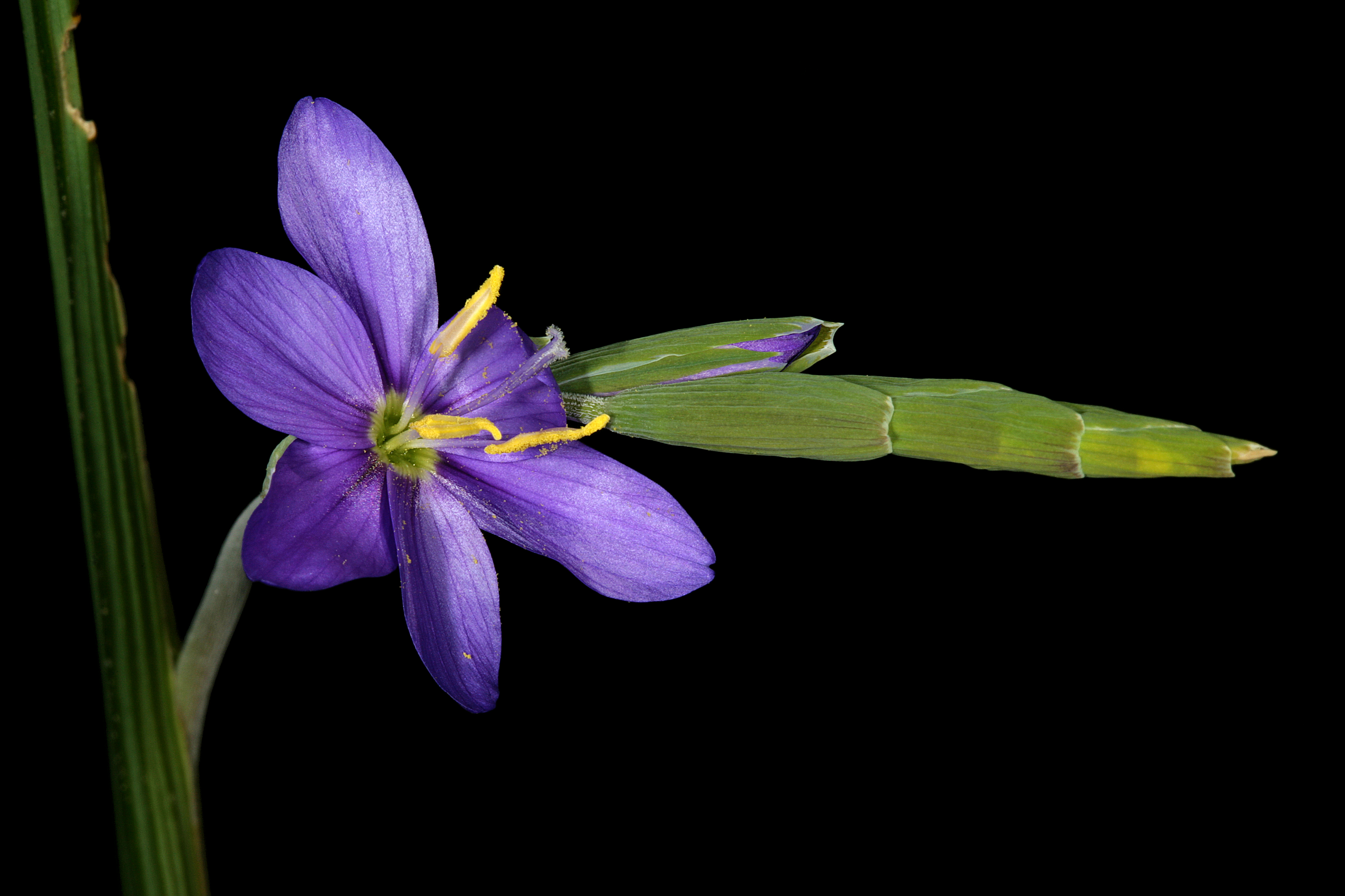 Geissorhiza arenicola, young infloresence, with one open flower; on sandstone, along Grasberg Road, Nieuwoudtville, Northern Cape